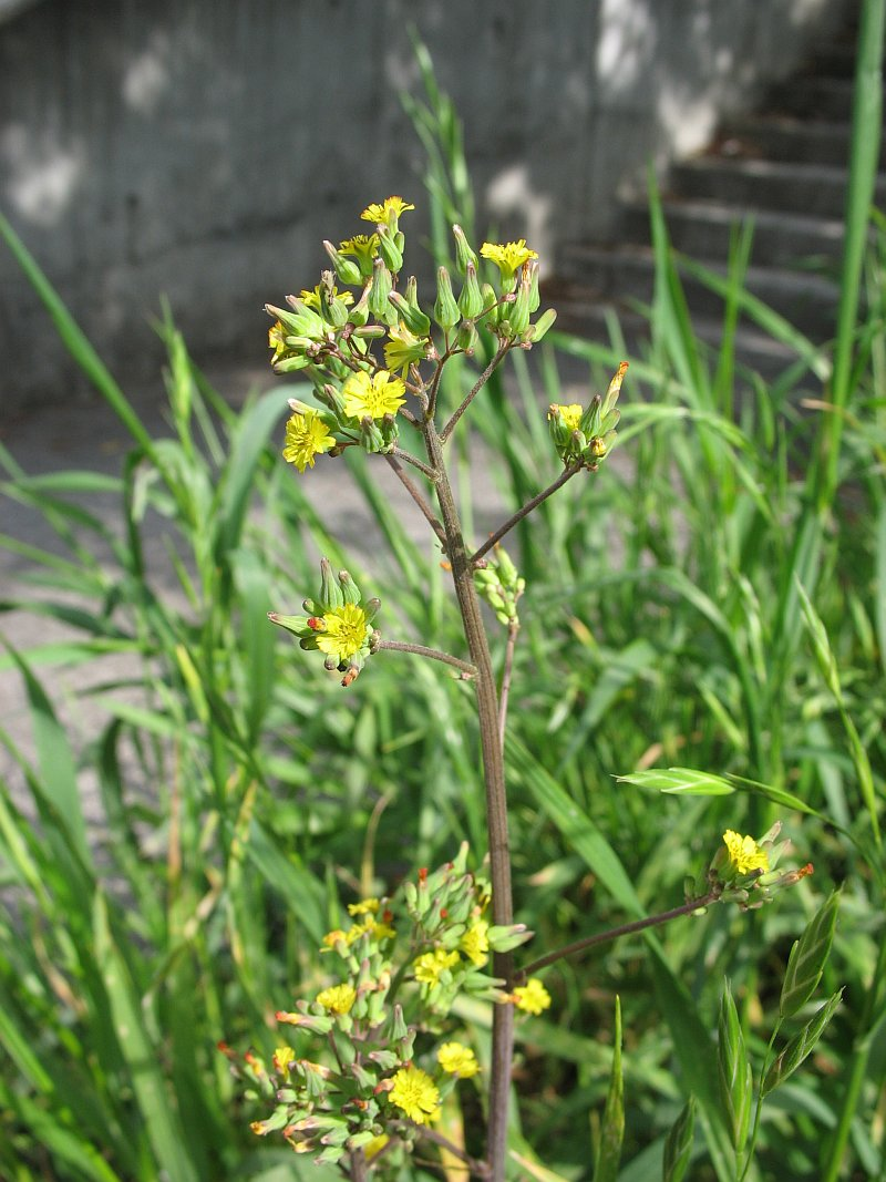 Photograph of Youngja japonica,taken in Machida city, Tokyo, Japan.